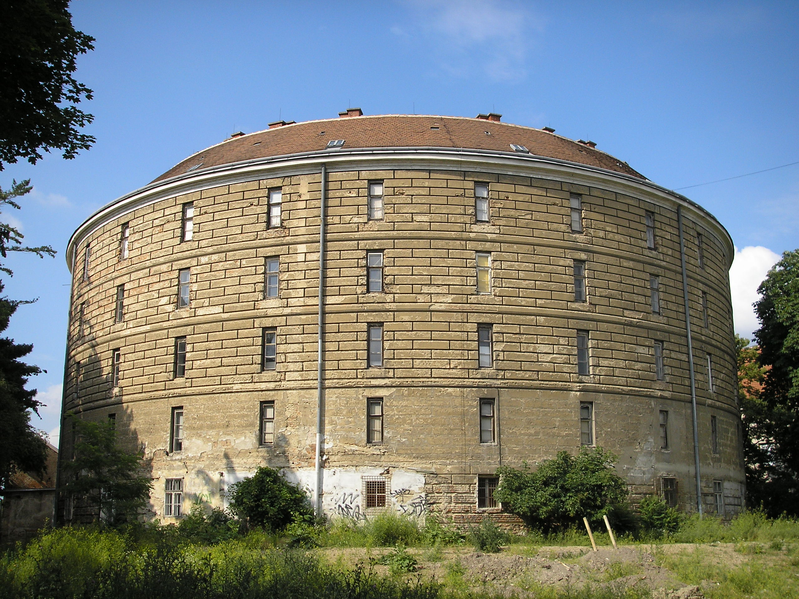 Narrenturm in the Campus of the University of Vienna in Vienna, Austria. Built in 1784, it was world’s first mental ward; today it is a museum, and part of the University campus.